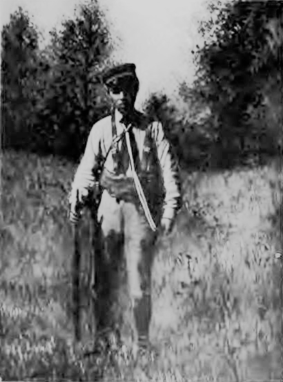 Arthur Douglas Howden Smith (1887-1945), American historian, writer and journalist; dressed in the rebel uniform of the Macedonians c. 1907.